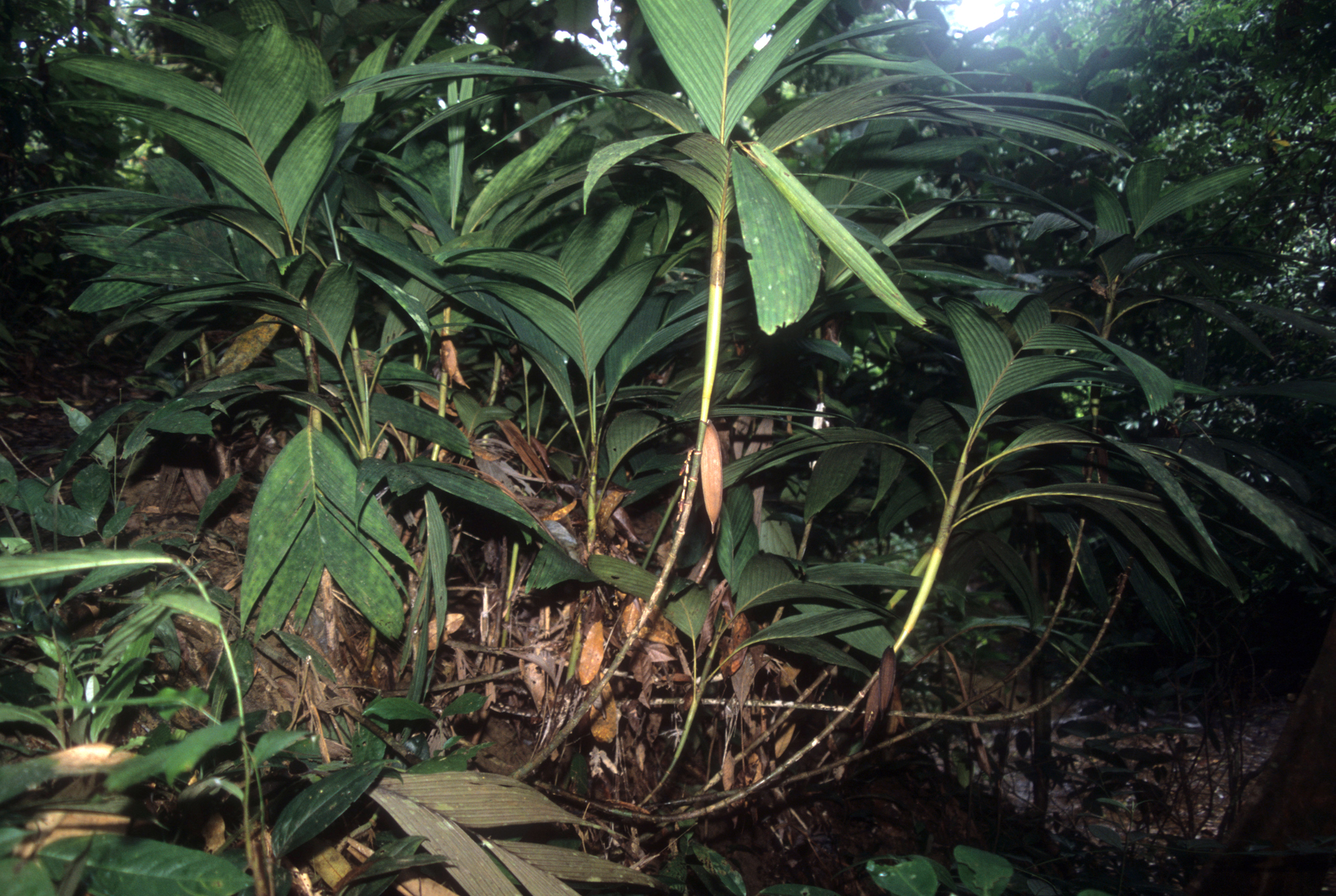 Pinanga cleistantha. Sungai Nipah, Terengganu, Malaysia. Oct. 2002. The palm gets its name from the flowers that remain enclosed by the prophyll throughout anthesis and fruit development.